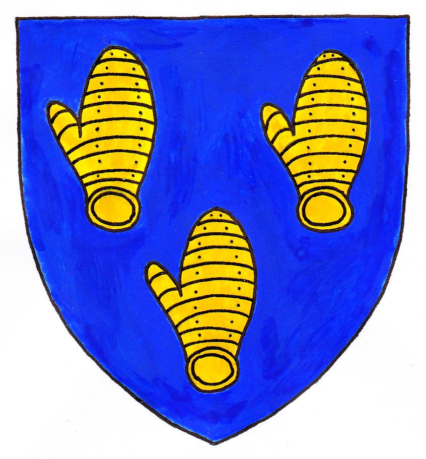 Armorial of Fane, Earls of Westmorland: Azure, three dexter gauntlets back affrontée or (per Debrett's Peerage, 1968, p.1148)